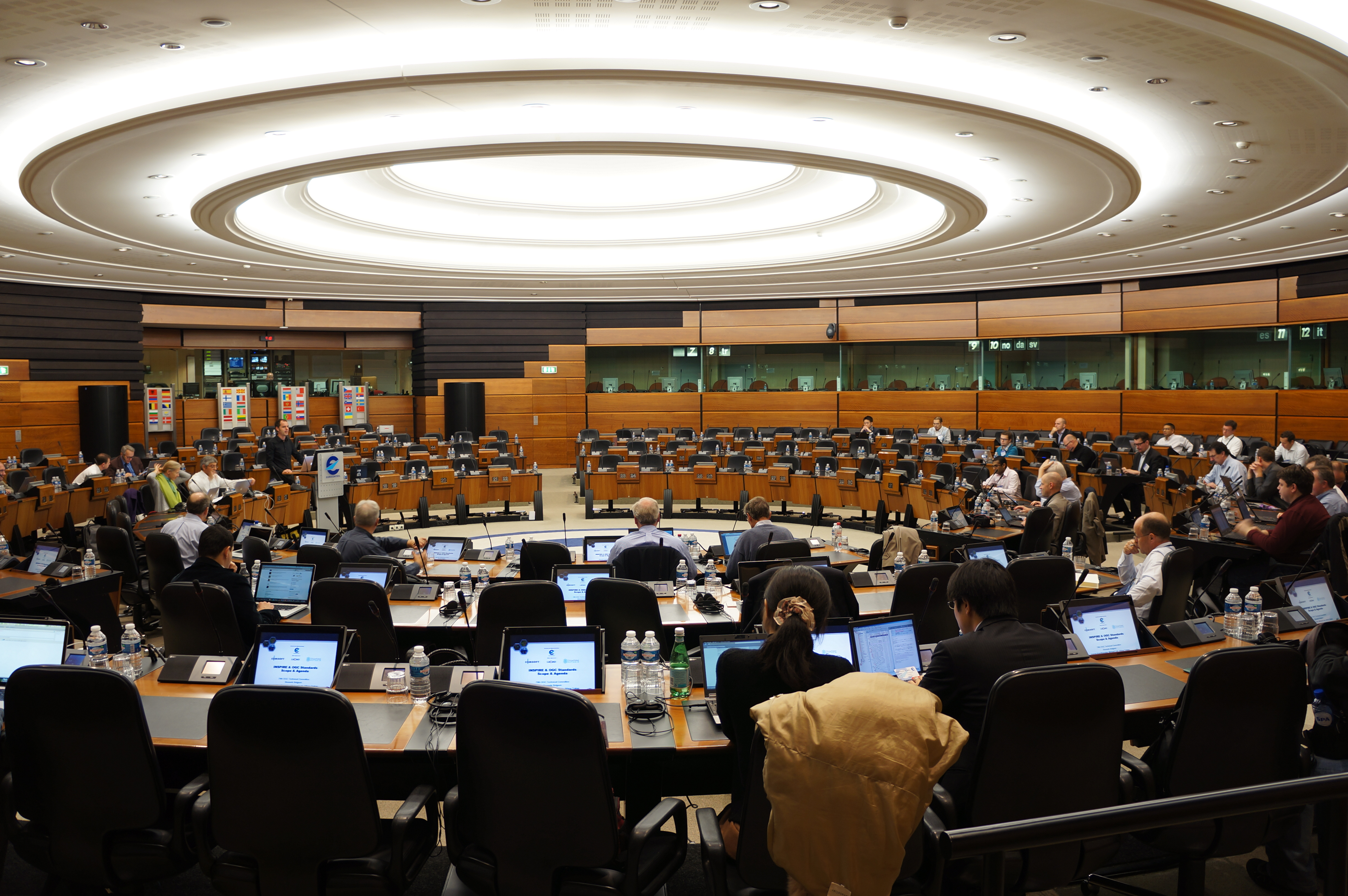 The meeting of EUROCONTROL, the European Organisation for the Safety of Air Navigation, Brussels, Belgium